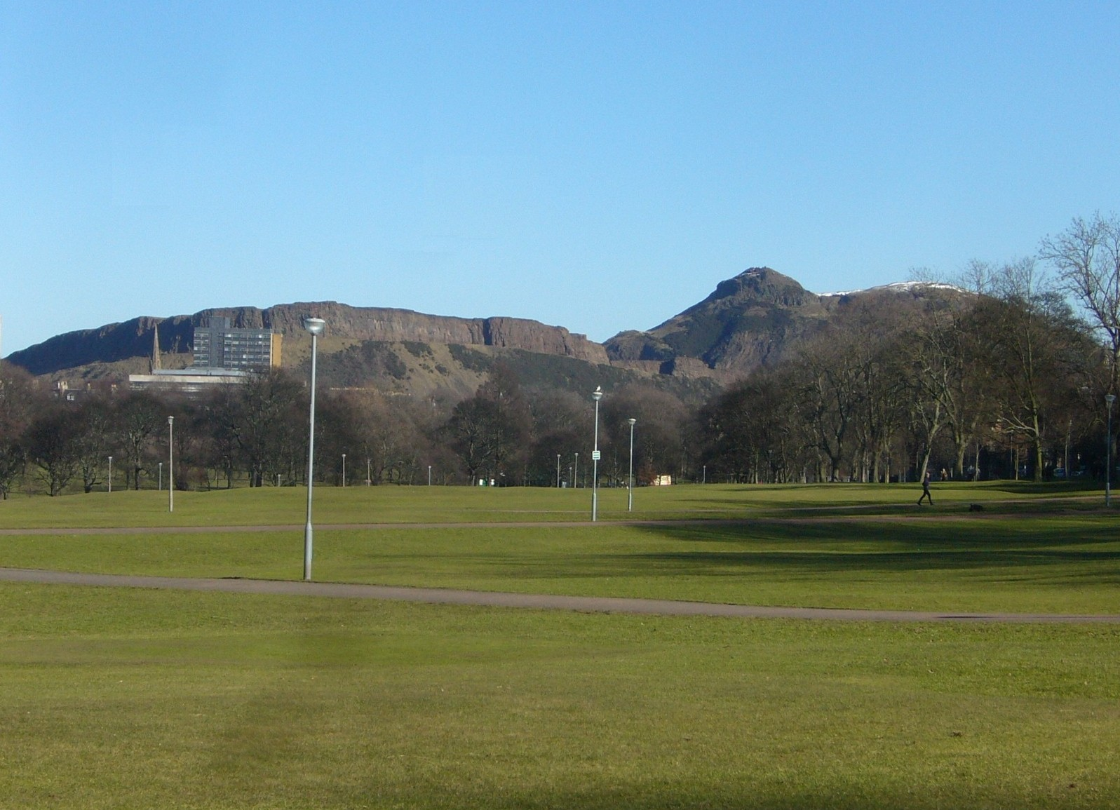 Arthur's Seat from Bruntsfield Links, Edinburgh